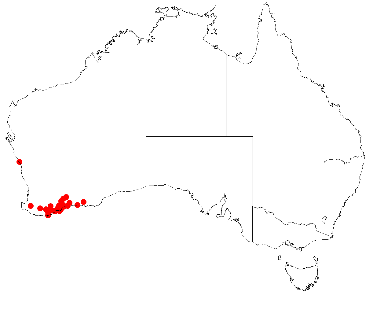 Calectasia gracilis occurrence data from Australasian Virtual Herbarium downloaded 01 July 2018